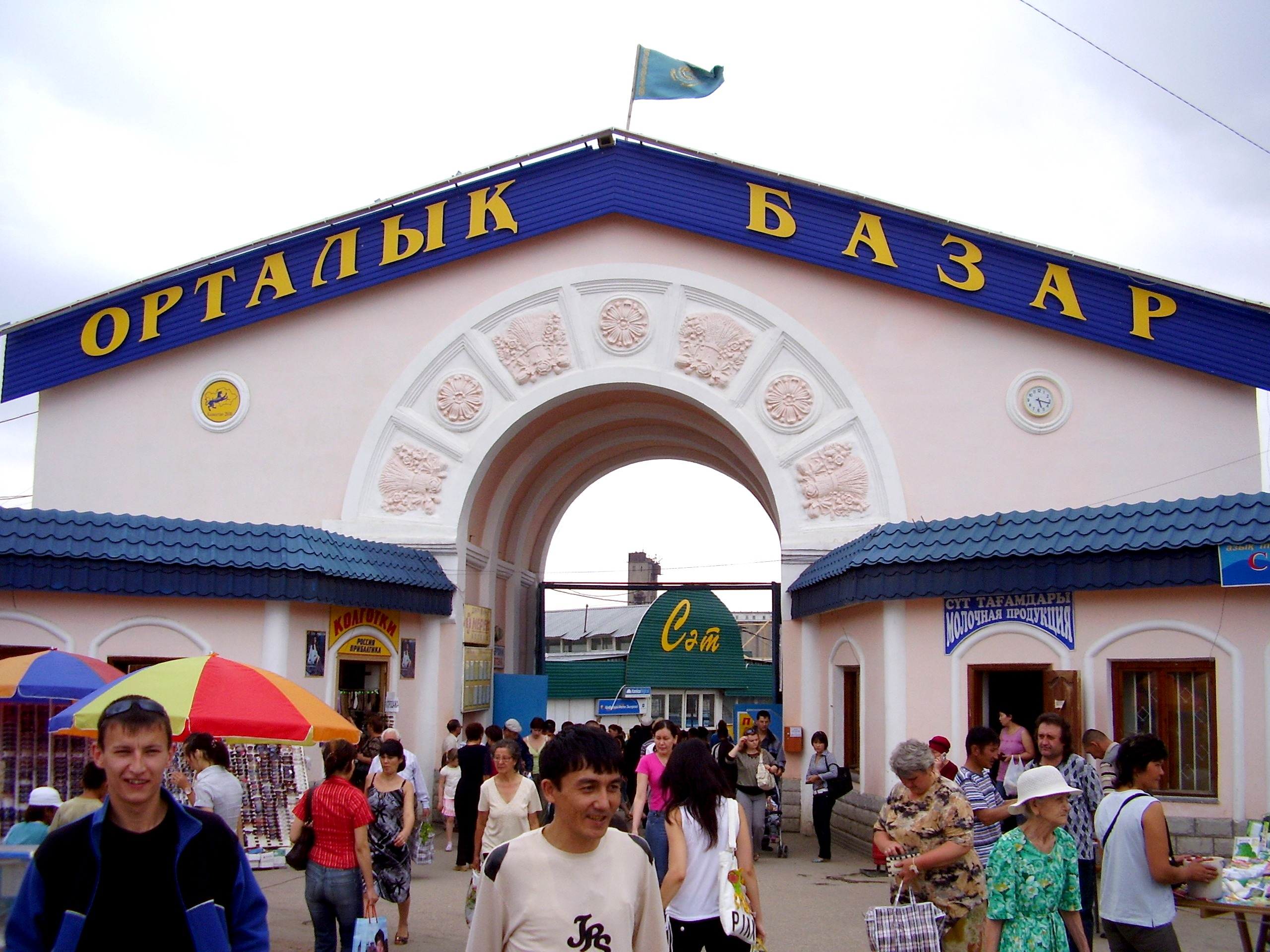 Aktobe Central Market